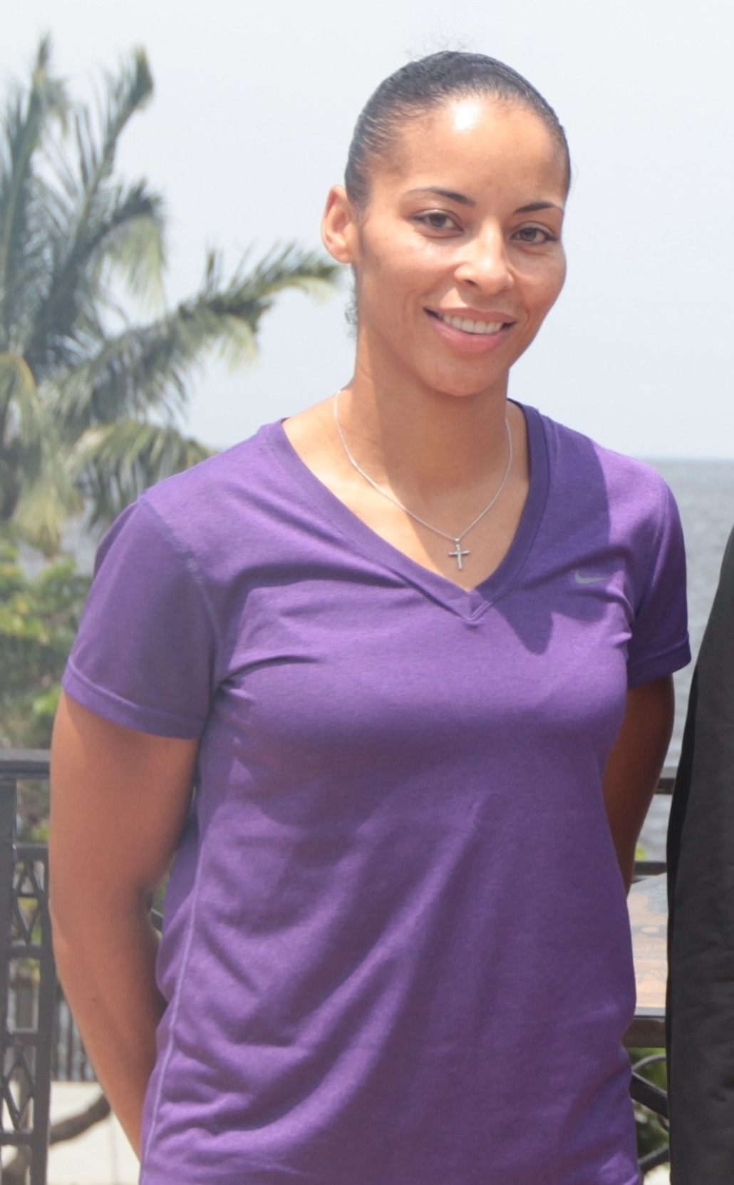 Manila, August 12, 2014 – U.S. Ambassador Philip S. Goldberg Welcomes Former NBA/WNBA Players. U.S. Ambassador Philip S. Goldberg meets with former National Basketball Association player, Derrick Alston, and former Women’s National Basketball Association player, Allison Feaster. The stars arrived in the Philippines Sunday to participate in U.S. Embassy-sponsored sports diplomacy activities, such as basketball clinics and outreach, as a part of the U.S. Department of State’s Sports United program. They later visited disaster-hit Leyte and Tacloban City, and fans in Manila.